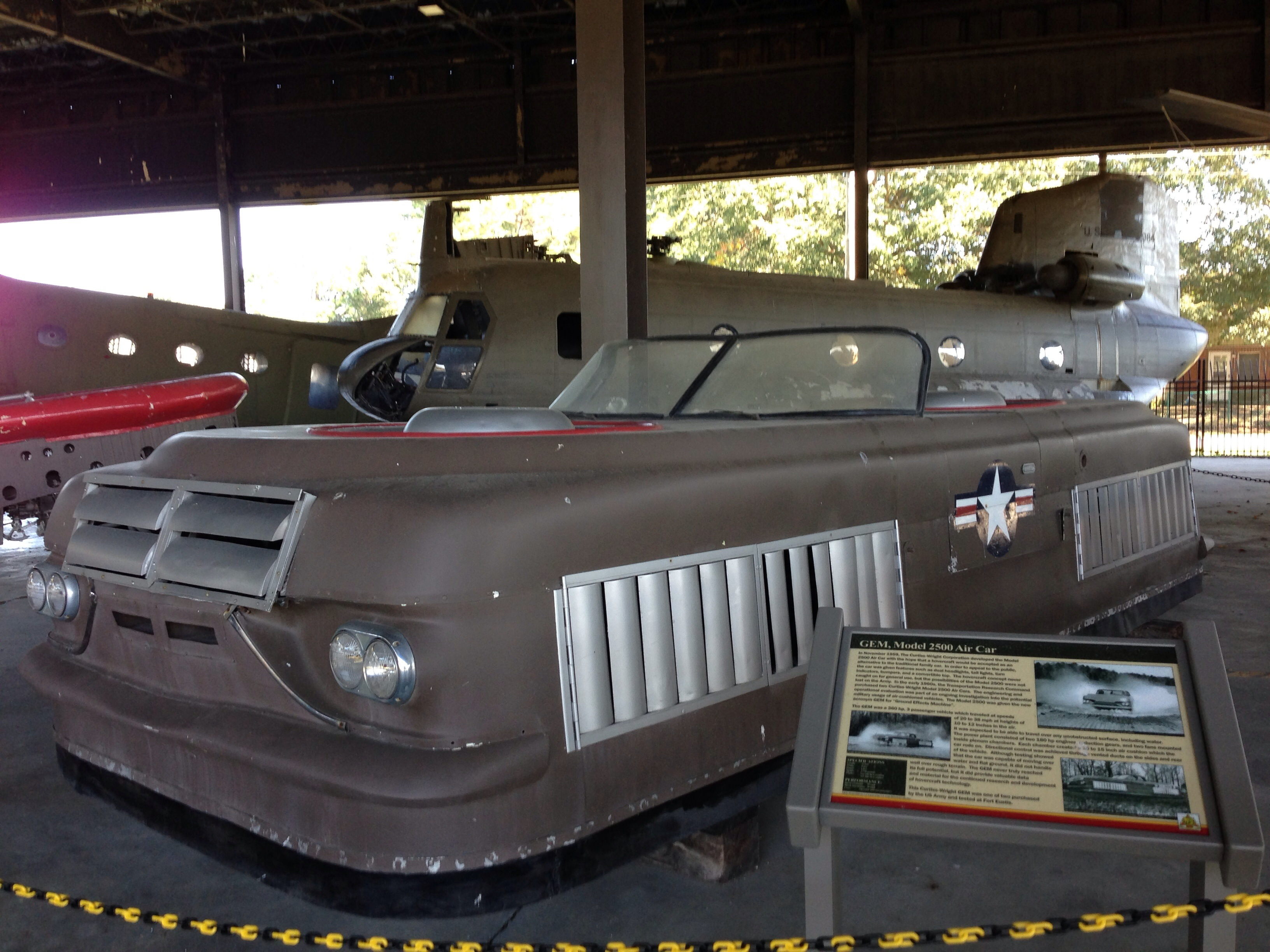 Customized for the army. It's only a 2 seater.